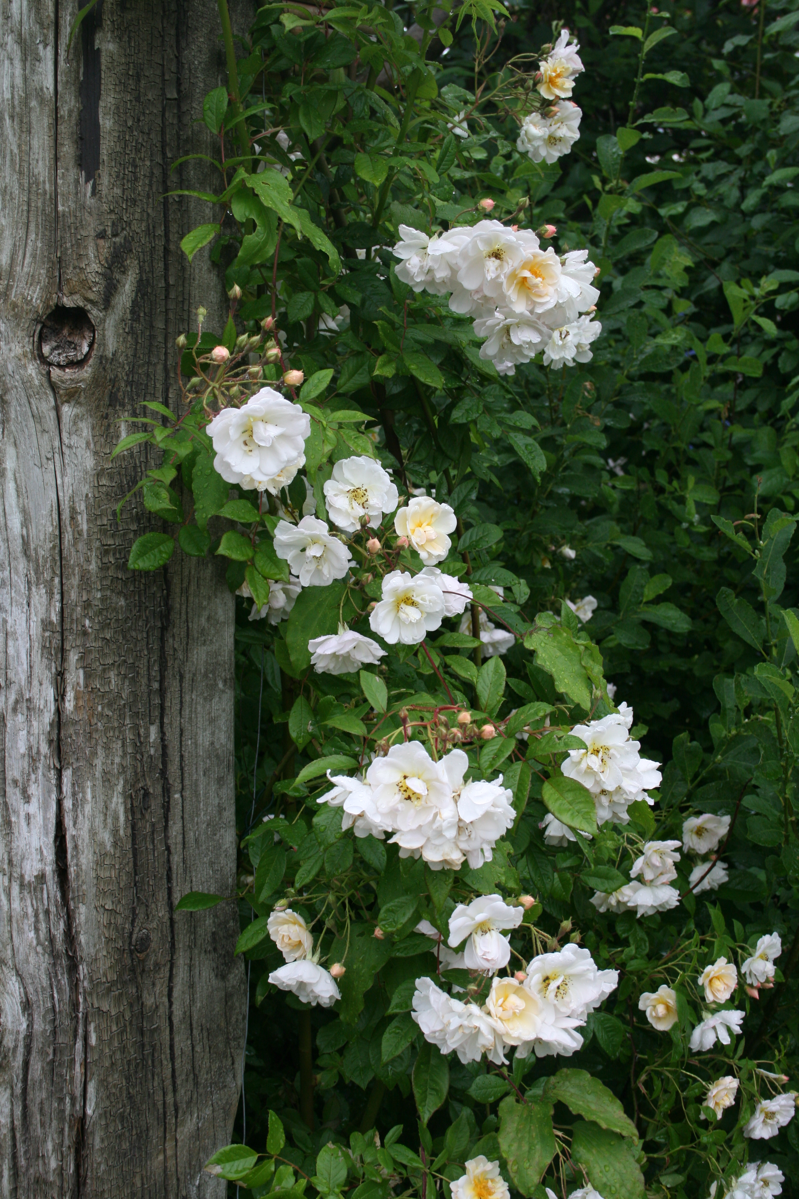 Rosa 'Lykkefund'. A rambler bred by Aksel Olsen (Denmark, 1930).